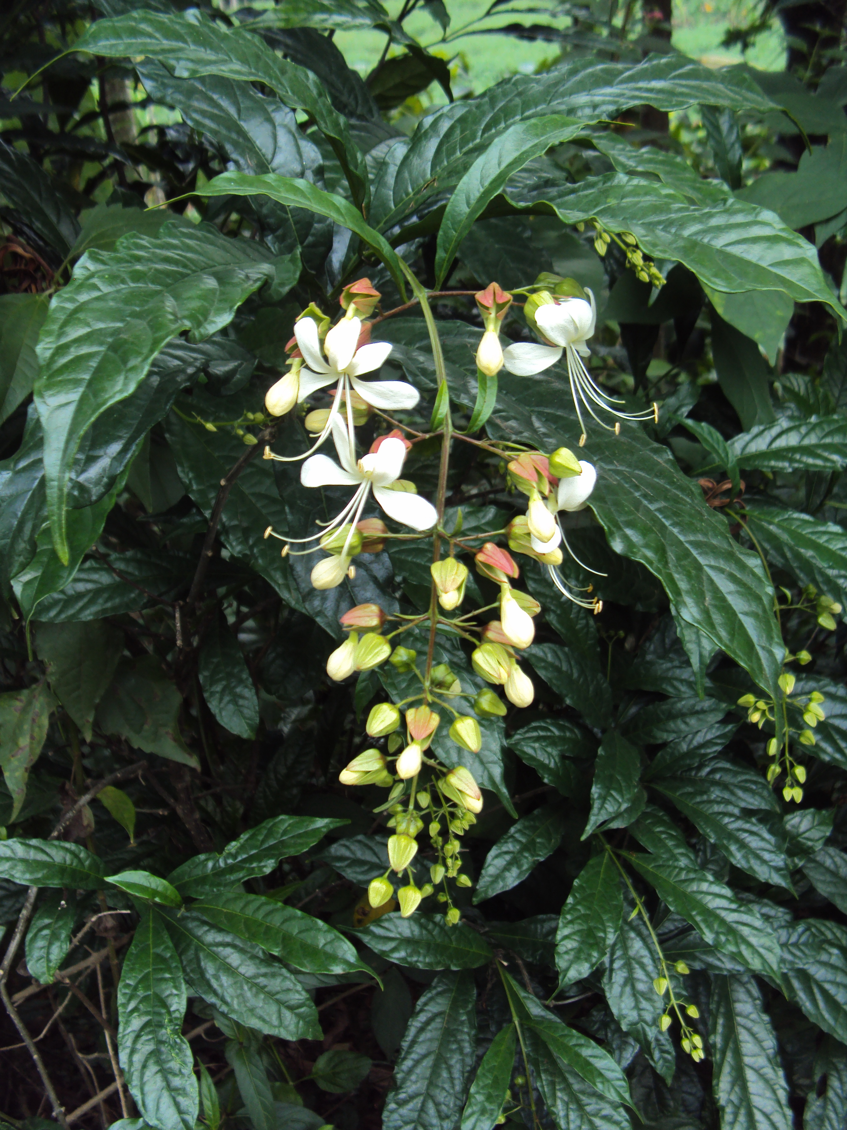 Clerodendrum Wallichii